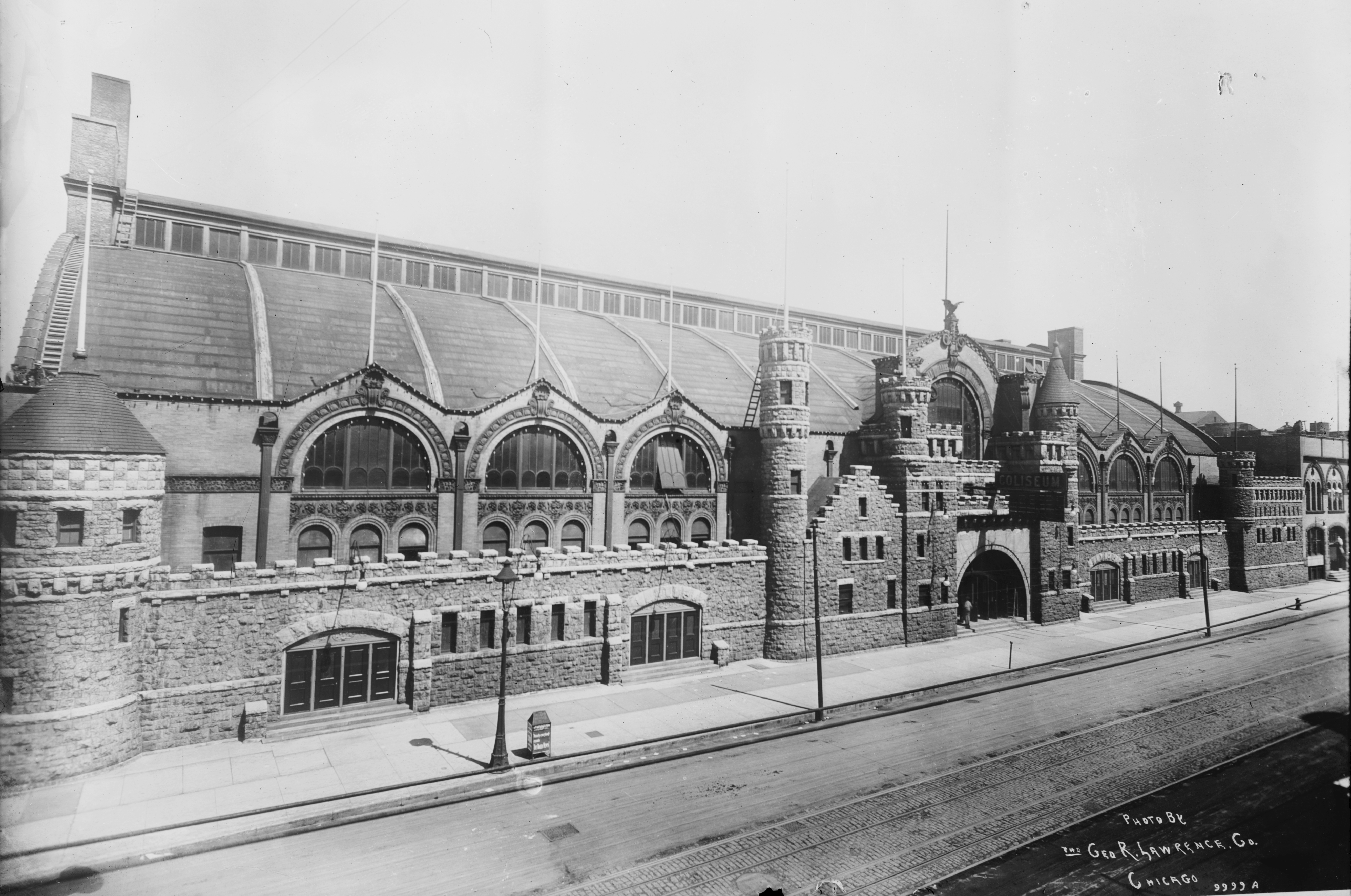 Coliseum building, Chicago. Exterior view.